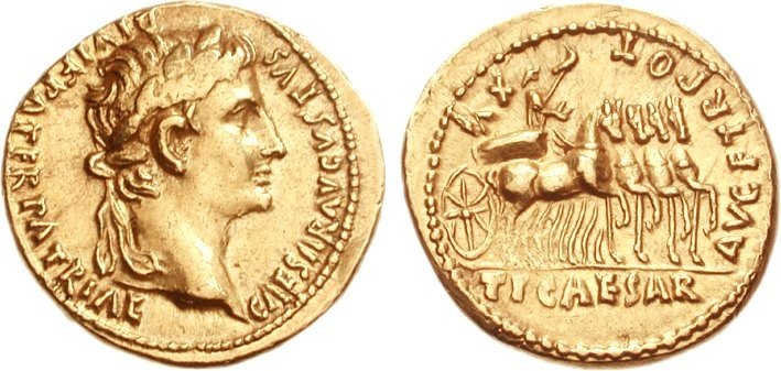 Augustus, with Tiberius as Caesar. 27 BC-AD 14. AV Aureus (7.93 g, 5h). Lugdunum (Lyon) mint. Struck AD 13-14. CAESAR AVGVSTVS DIVI F PATER PATRIAE, laureate head right TI CAESAR in exergue, AVG F TR POT XV • above, Tiberius, laureate, standing right in triumphal quadriga, holding eagle-tipped scepter in left hand and laurel branch in right. RIC I 221; Lyon 89; Calicó 294; BMCRE 511; BN 1685-6.